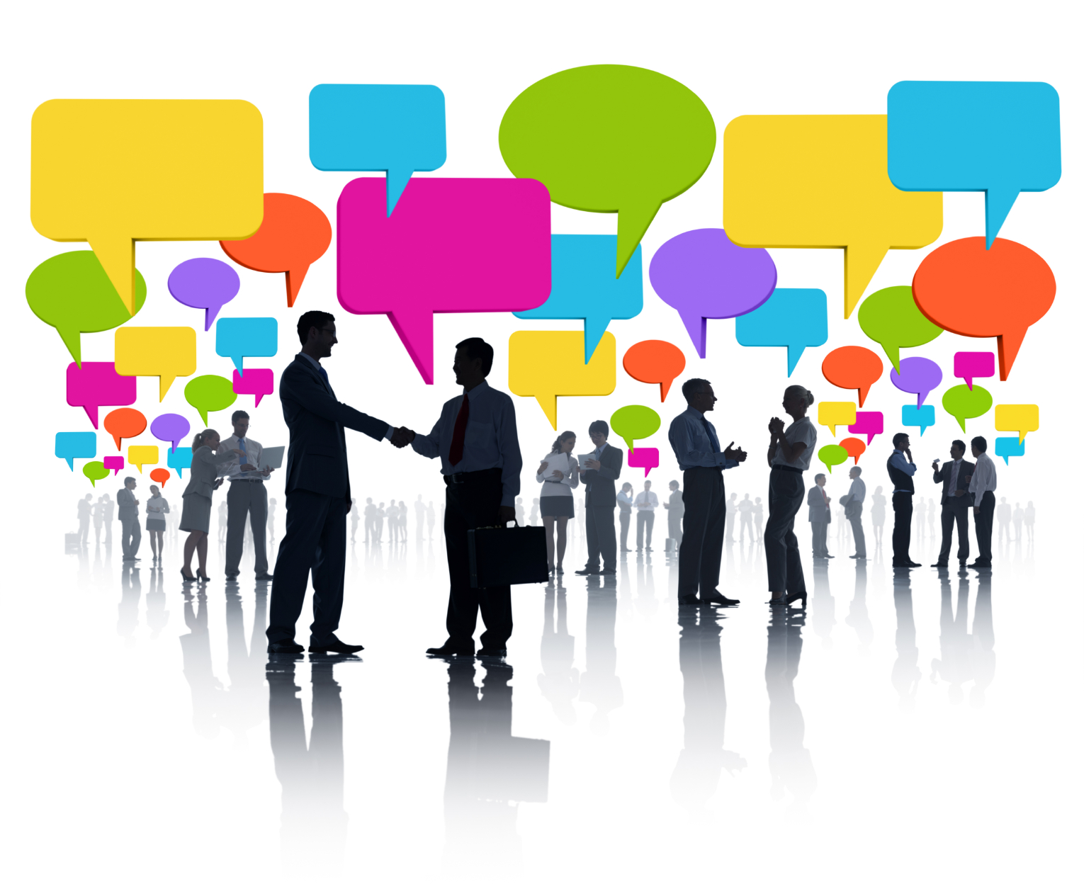 A picture that shows a communication model in business contextes.